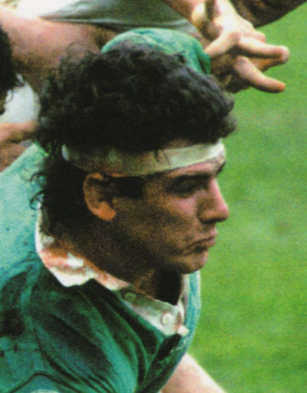 The late Italian rugby union player Raffaele Dolfato (1962-1997) during a 1986-87 championship match between Benetton Rugby Treviso (the club where he played) and Petrarca Rugby, in Padua.